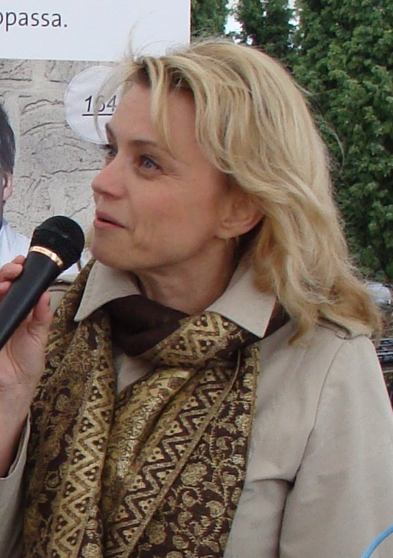 A4 paper aspect ratio (210:297) cropped portrait.